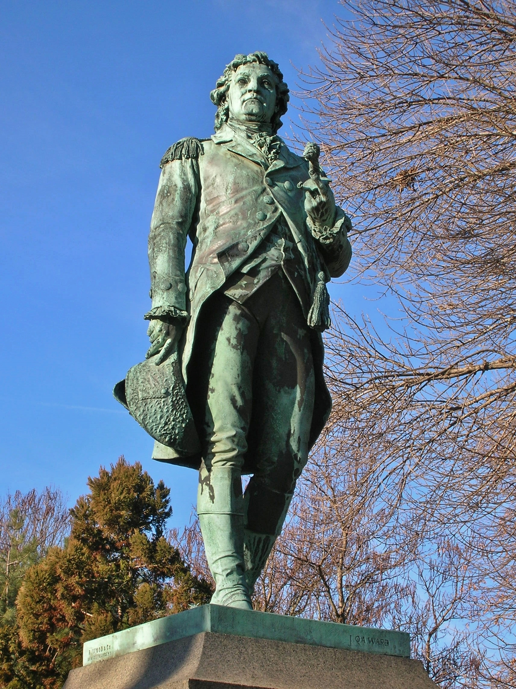 Statute of Israel Putnam, sculpted by John Quincy Adams Ward in 1873. Located in Bushnell park, near the Connecticut State Capitol in Hartford, CT. Photo taken 1-20-2016.